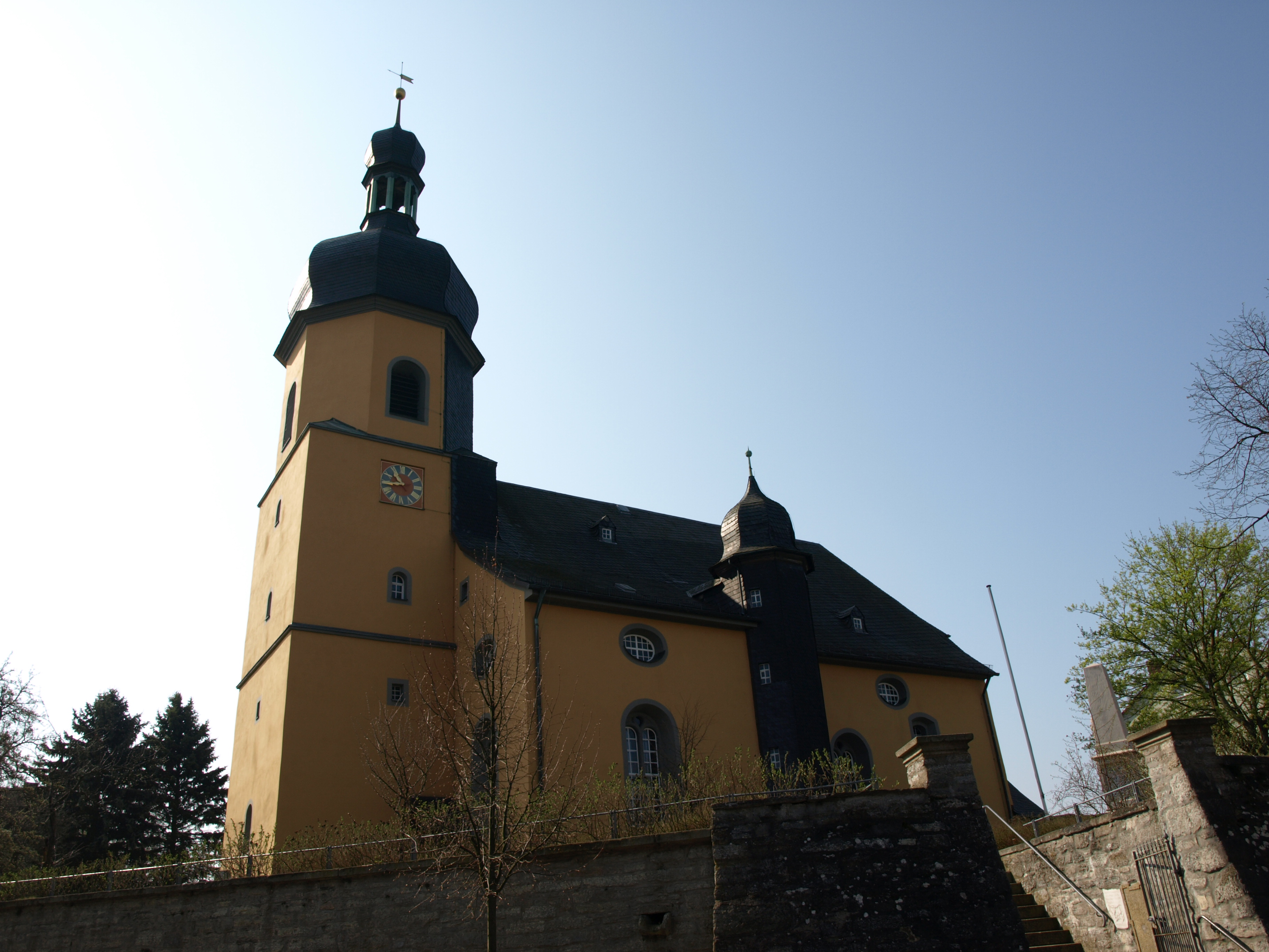 The church of Regnitzlosau.